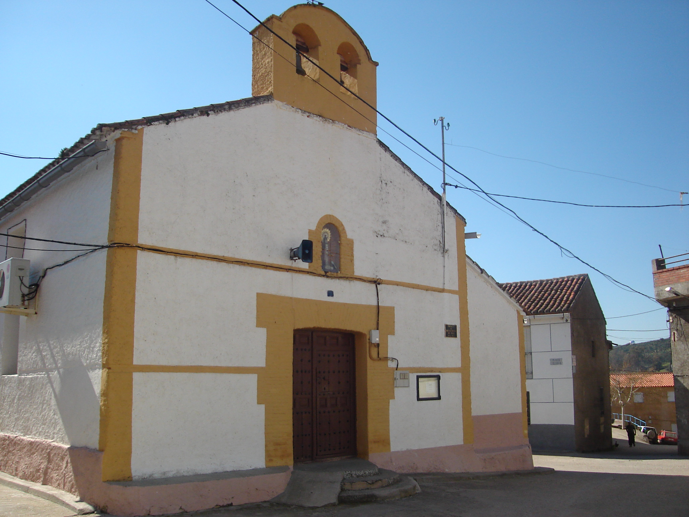 Church of Our Lady of the Pillar, in Los Alares (Toledo, Spain)